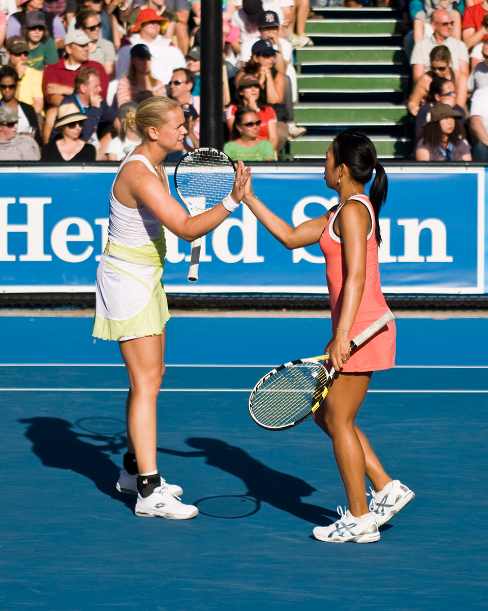 Anna-Lena Grönefeld (left) and Vania King during their 2010 Australian Open 2nd round doubles loss to Victoria Azarenka and Svetlana Kuznetsova